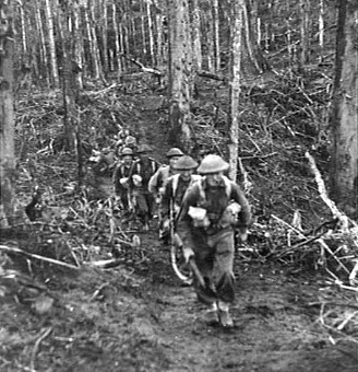 Men from the 25th Battalion move along a spur on Artillery Hill during the attack on Pearl Ridge, Bougainville.